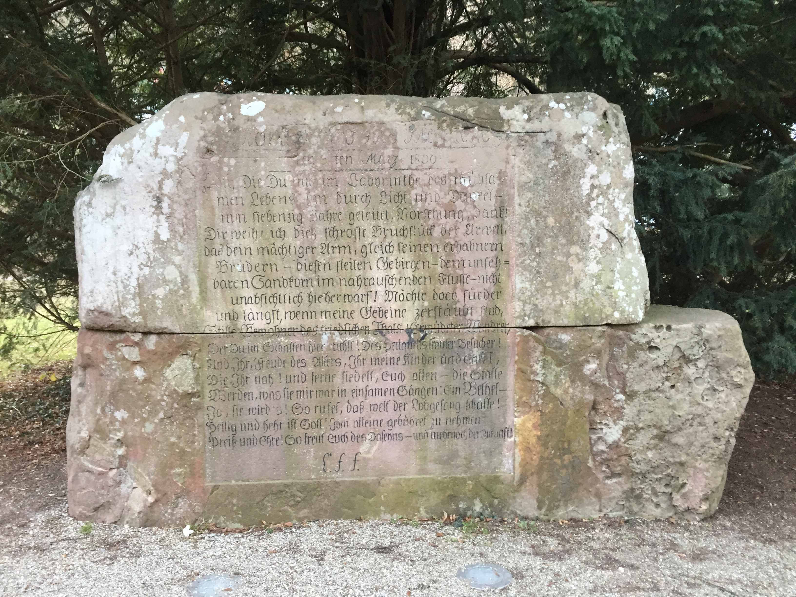 Photo of the monument erected by Carl Friedrich Feuerlein in Bad Liebenzell in 1800. The text was hammered in by an unknown stonemason.